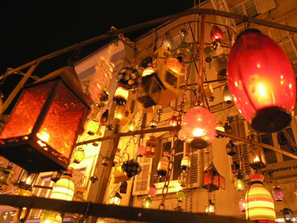 Marché de Noel d'Epinal.